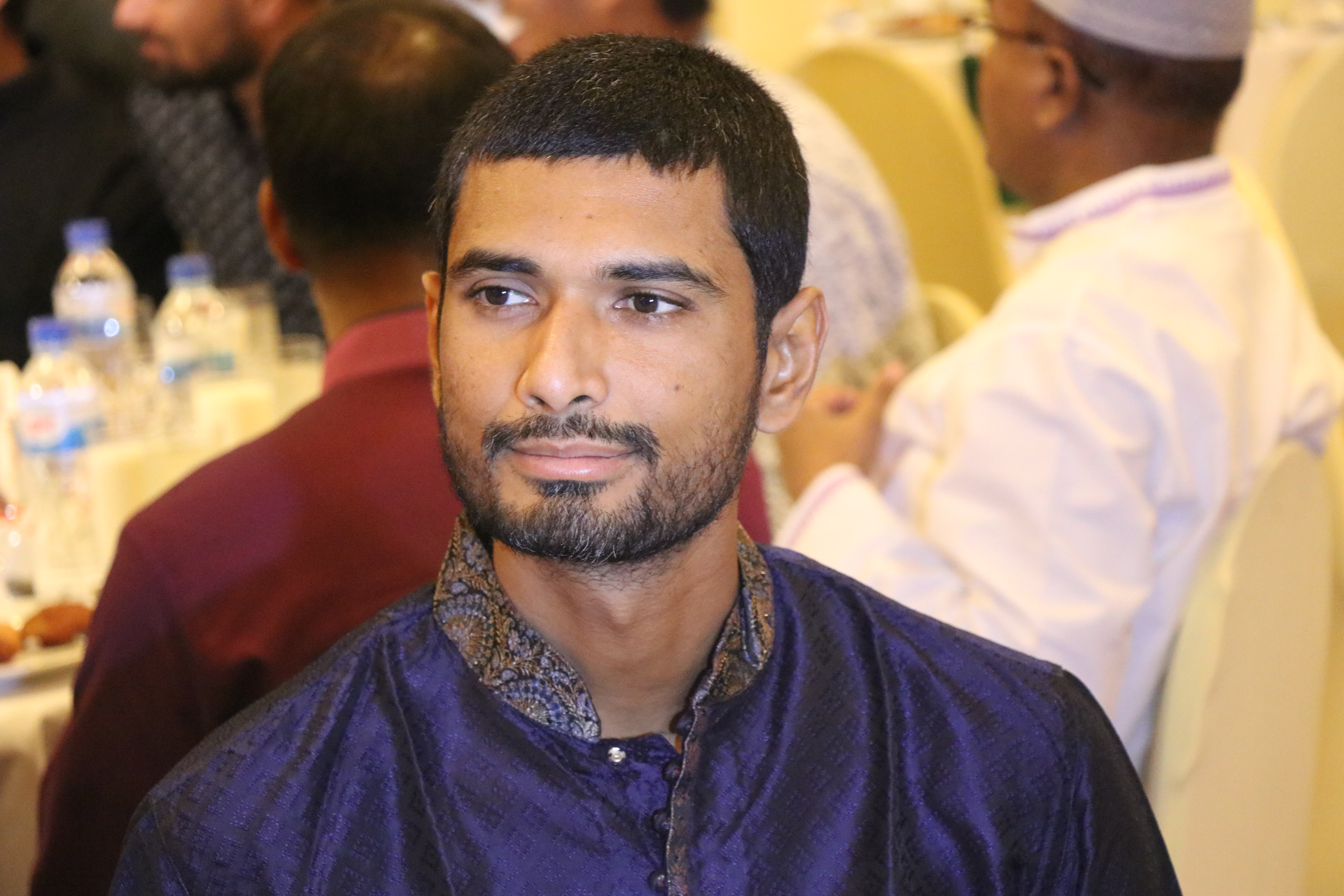 Mahmudullah Riyad, Bangladesh National Cricket player